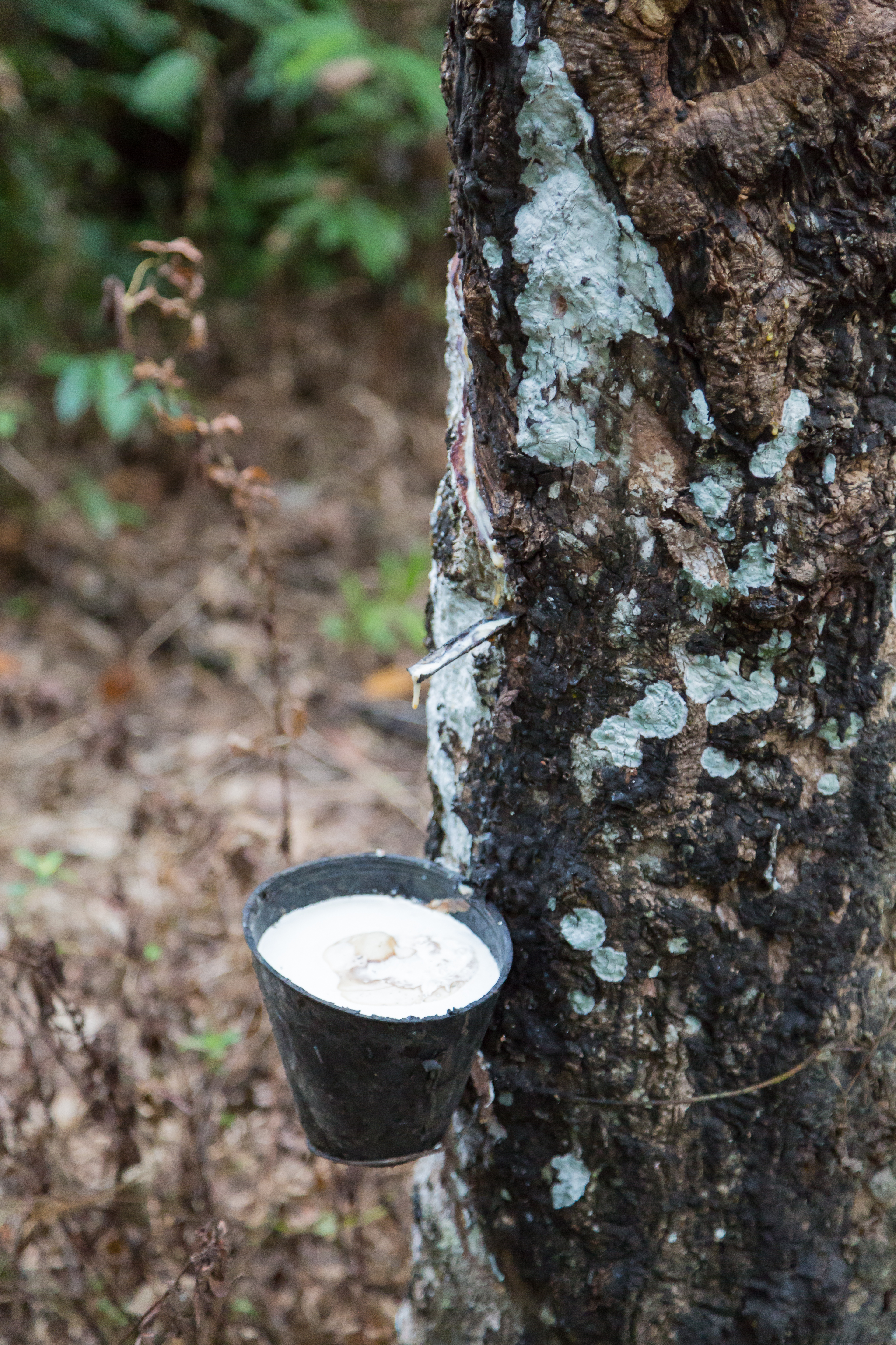 Langkawi, Malaysia: Rubber farming along Teluk Yu Road